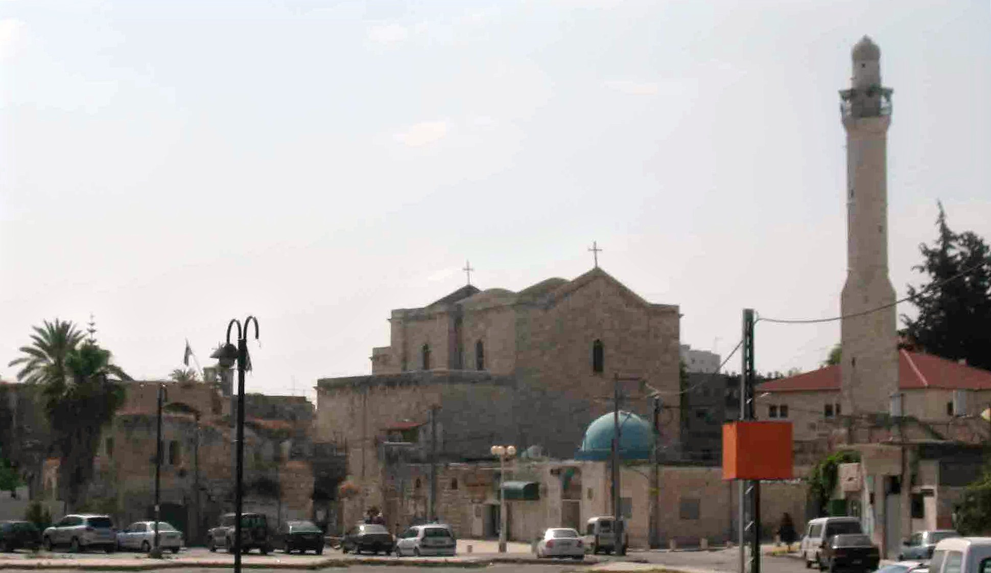 Copyright note: This photo has been released to the Public Domain, or it is licensed under Creative Commons or cc0, or it falls under the doctrine of Fair Use as of United States copyright law, or I have received written consent by the author, rights owner, licensed source, or otherwise authorized by source to republish photos without any limitations. Therefore, anyone can republish this photo anywhere else in the Internet or any other publication in accordance to the legal copyright status of the photo. Please contact me through flickrmail should you feel you retain legal copyright rights to this photo. This photo has been published exclusively for didactical and/or historical purposes, and disemination is not only allowed, but also encouraged. At the very least, you are free to copy/link this photo as long as you recognize the source. Please don't write me to ask further consent or inform about further use.